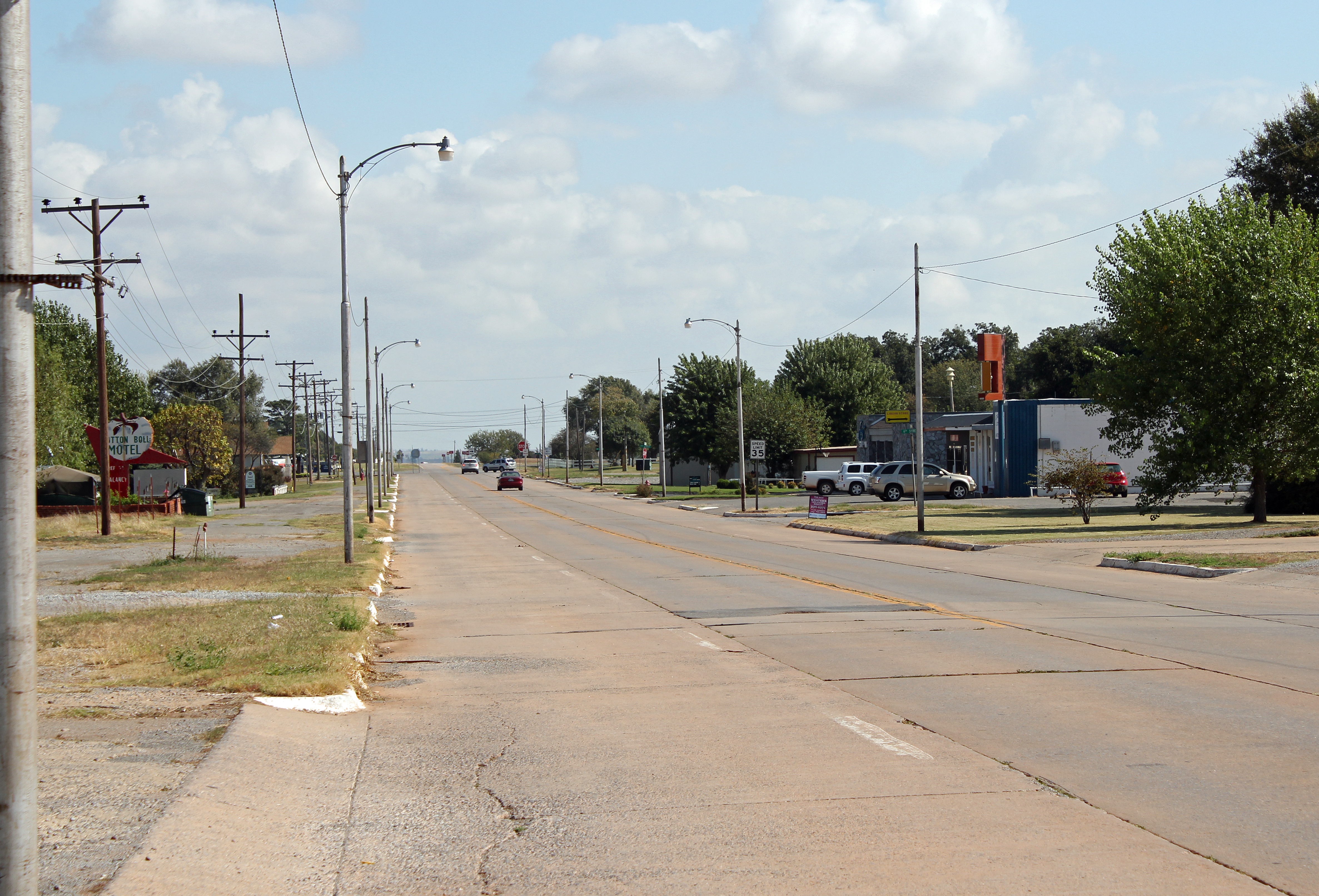 A view of Canute, Oklahoma. The view is to the east on old U.S. Highway 66, near the internction with Main Street.